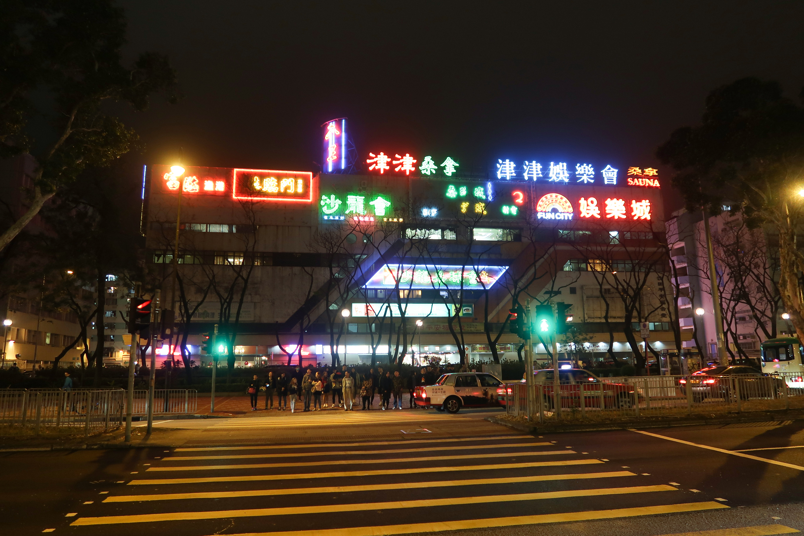 Entertainment City Night view